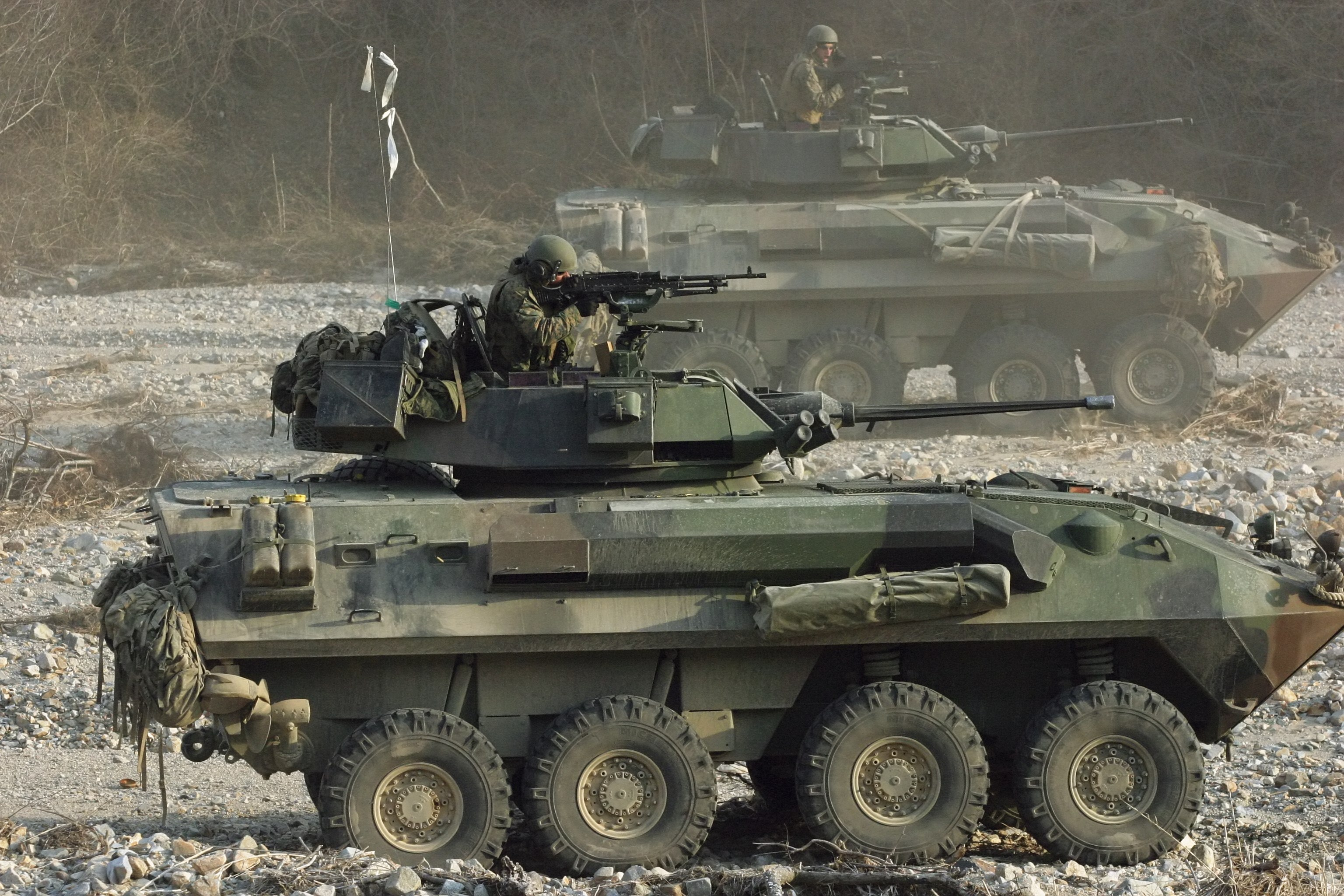 POHANG, South Korea (March 29, 2006) - Staff Sgt. Heighnbaugh, a platoon sgt. with the 3rd Light Armored Reconnaissance Platoon (reinforced), Battalion Landing Team, 2nd Battalion, 5th Marine Regiment, fires an M240G medium machinegun on a light armored vehicle at the Su Song Ri Range here during Exercise Foal Eagle 2006. The platoon participated in the live-fire training, firing a multitude of weapons from their arsenal, ranging from the M249 squad automatic weapon to M242 25mm chain guns mounted on their light armored vehicles. The BLT is the ground combat element of the 31st Marine Expeditionary Unit.